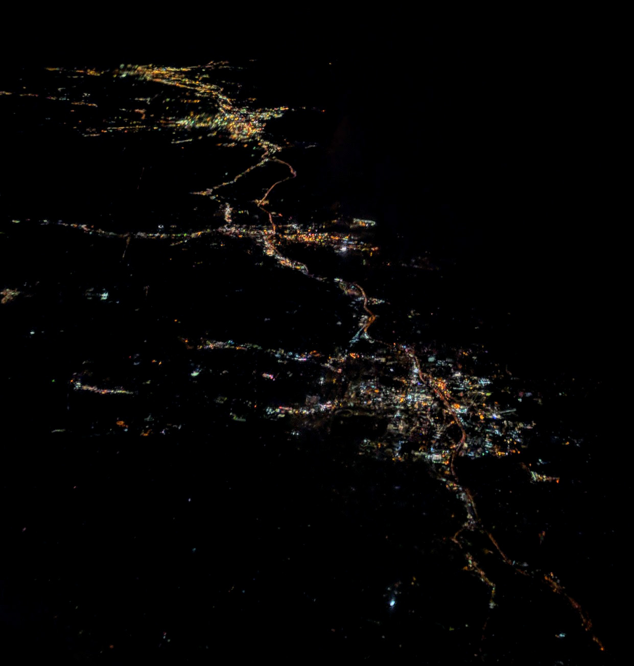 Night aerial view of Stamford, Connecticut, from the west, with Norwalk, Fairfield, and Bridgeport behind to the northeast.